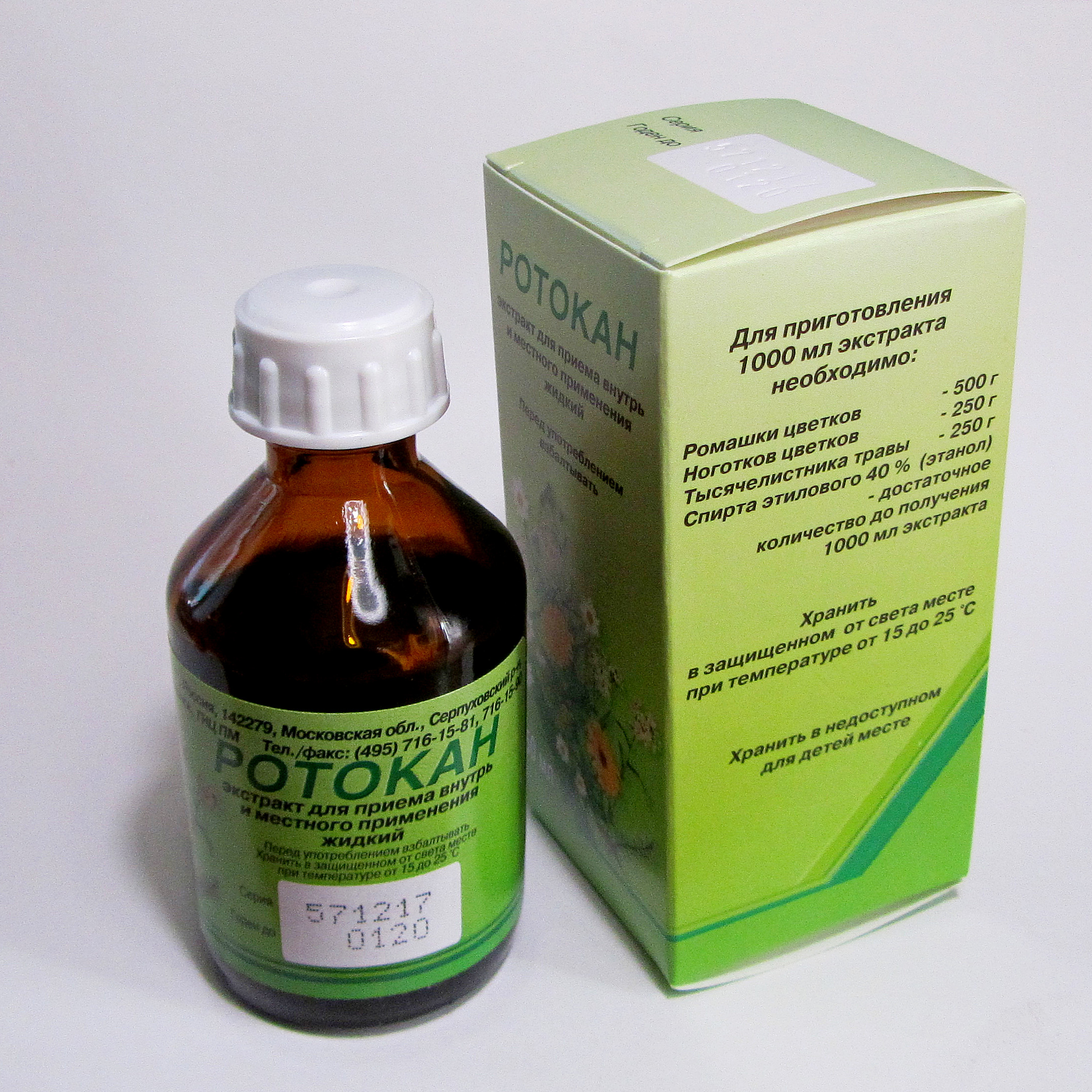 Pharmacologic agents. Matricaria chamomilla